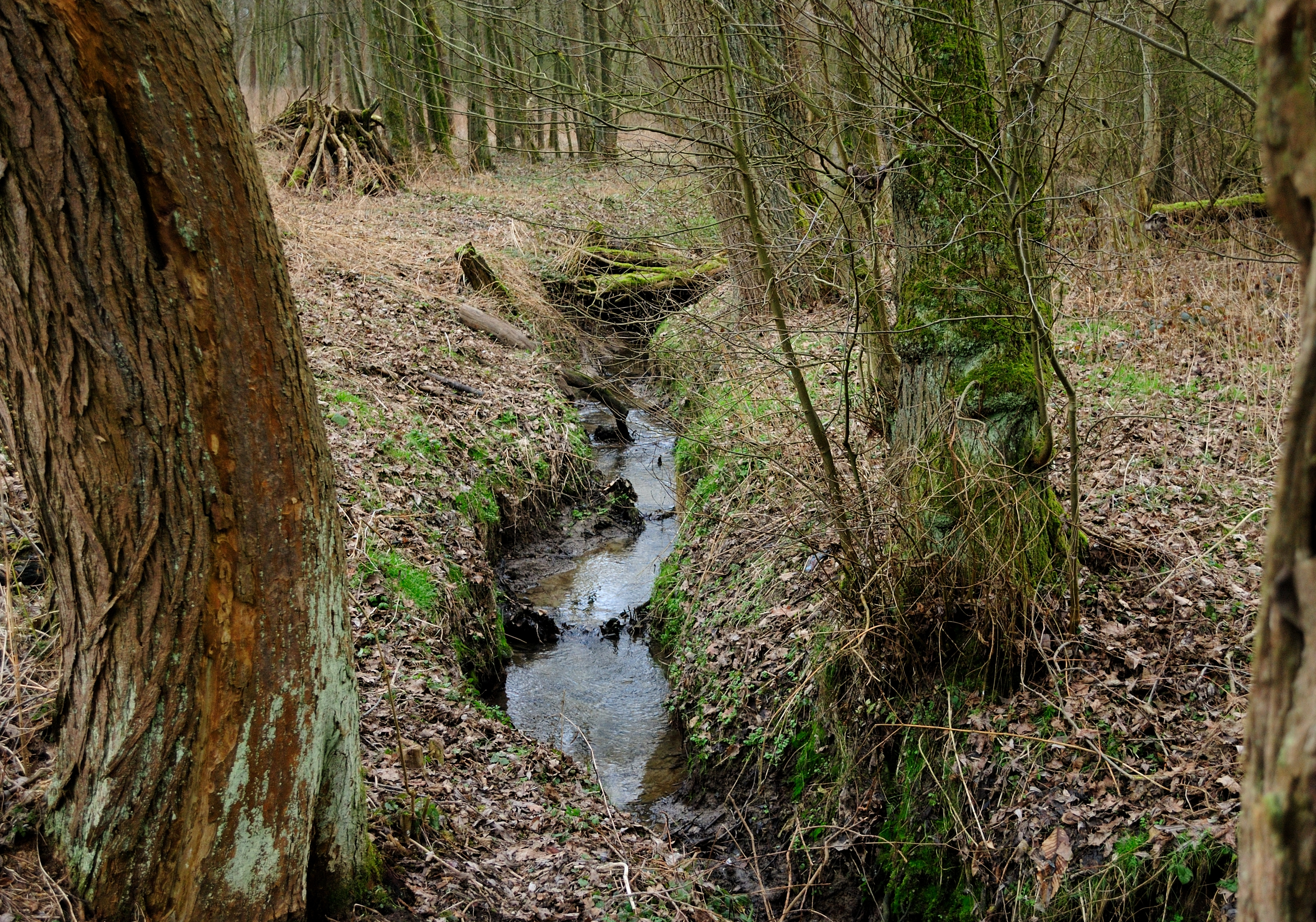 Broekbeek creek at Asse, Belgium. Nikon D60 f=26mm f/5 at 1/100s ISO 400. Processed using Nikon ViewNX 1.5.2 and GIMP 2.6.6.